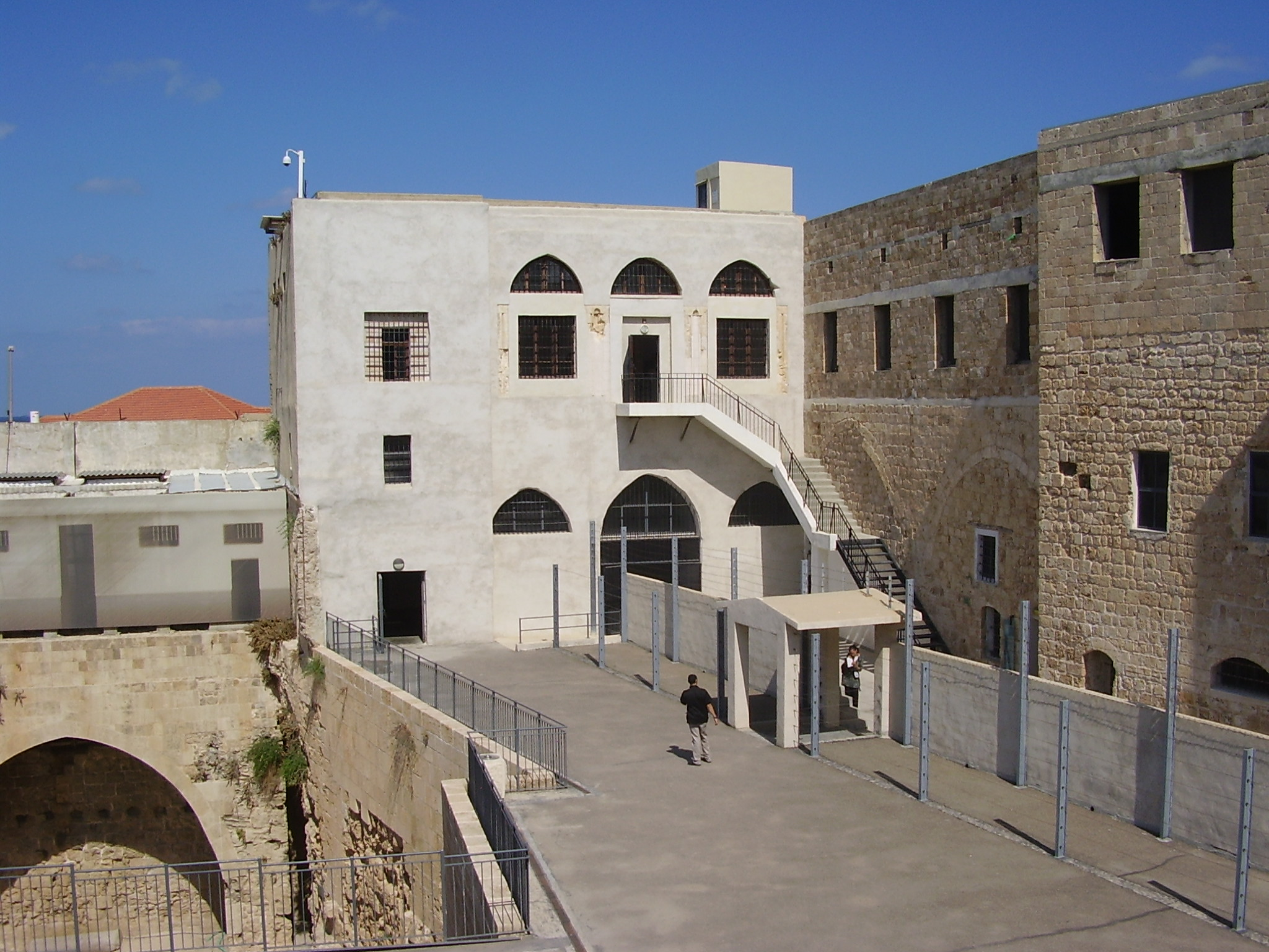 Acre Underground Prisoners Museum - Division where Ze\'ev Jabotinsky and Baha Ulla were imprisoned